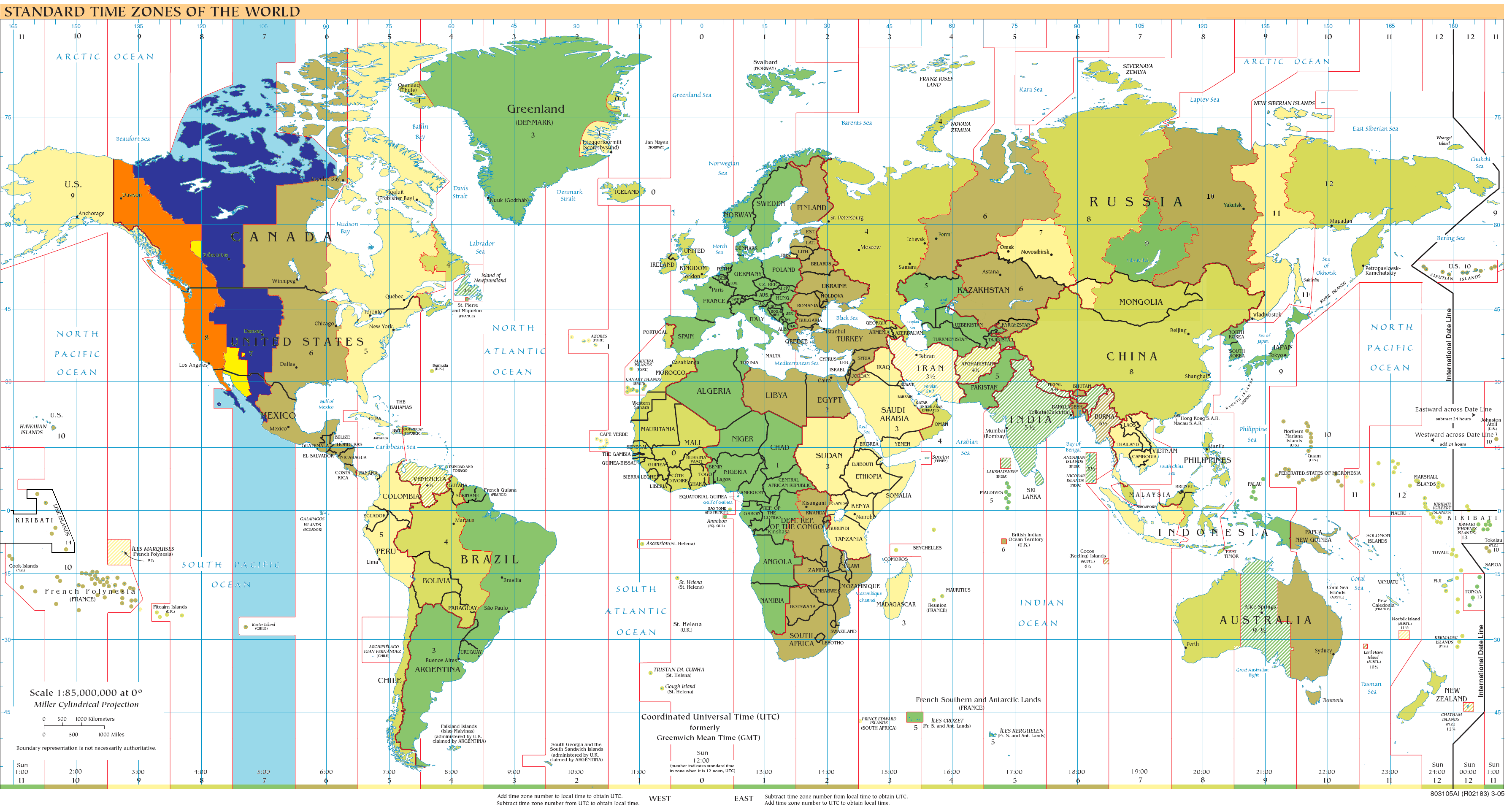 Based on Timezones2008.png Dark Blue - UTC-7 in December Orange - UTC-7 in June Yellow - UTC-7 all year round Light Blue - UTC-7 Sea Areas